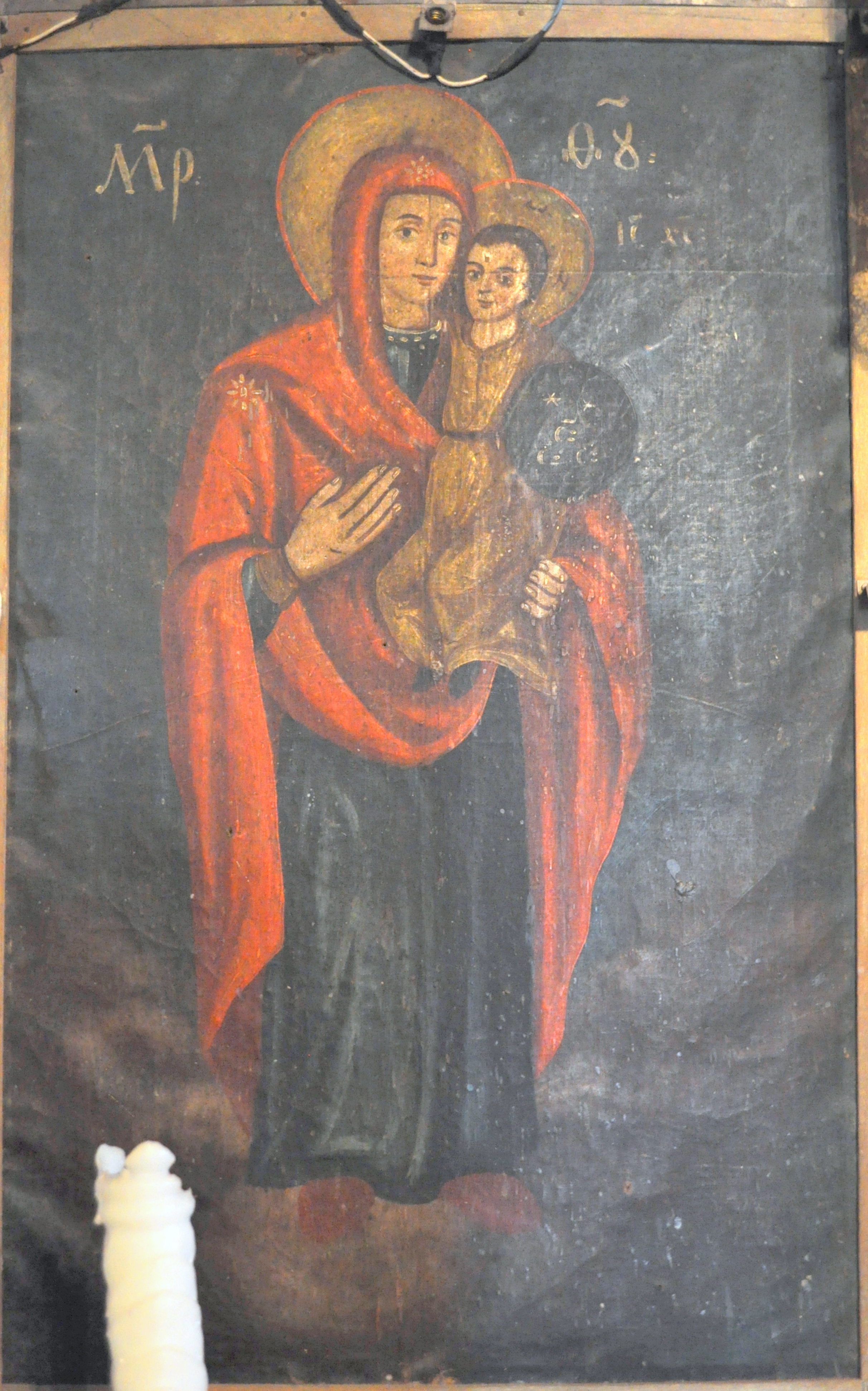 The old wooden church in Bruznic, Arad county, Romania